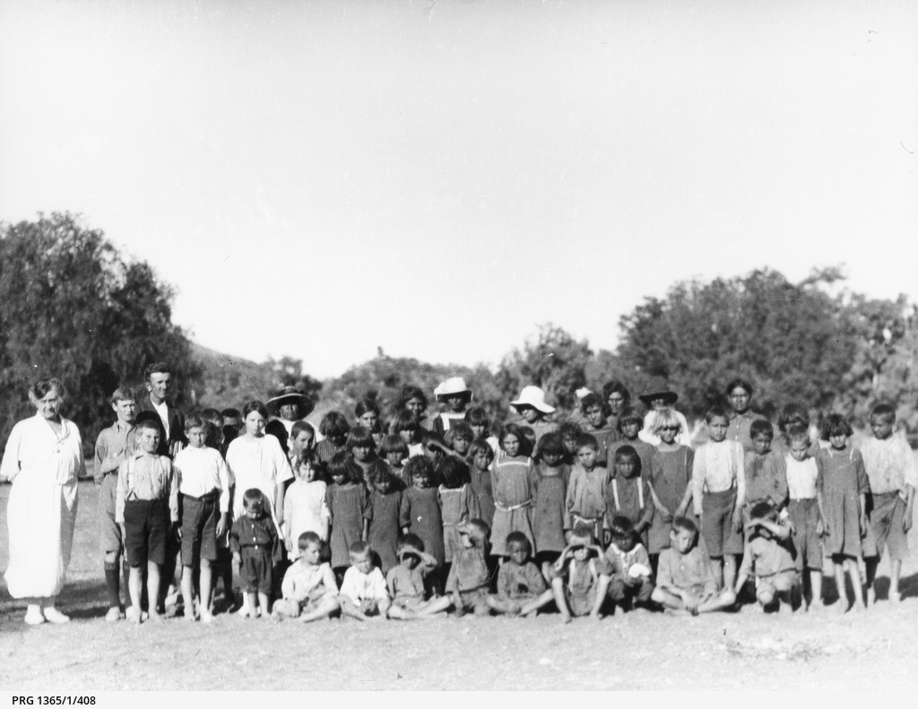 PRG 1365/1/408 - 'Mrs Standley, Bob Laver, Pastor Kramer, Alf McGowan, Pastor children and half-caste people and children. Topsy Smith is up the back, seventh from the right.